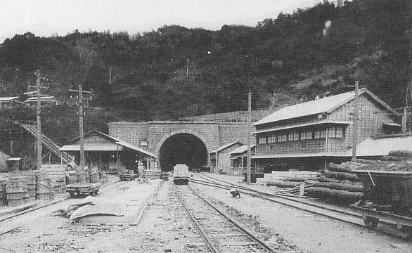 Tanna Tunnel under construction